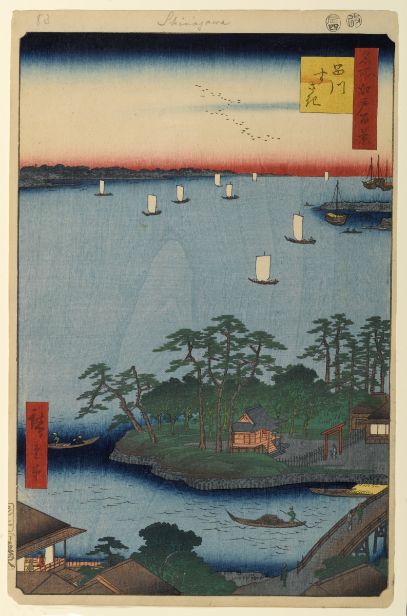 Part of the series One Hundred Famous Views of Edo, no. 083, part 3: Autumn.